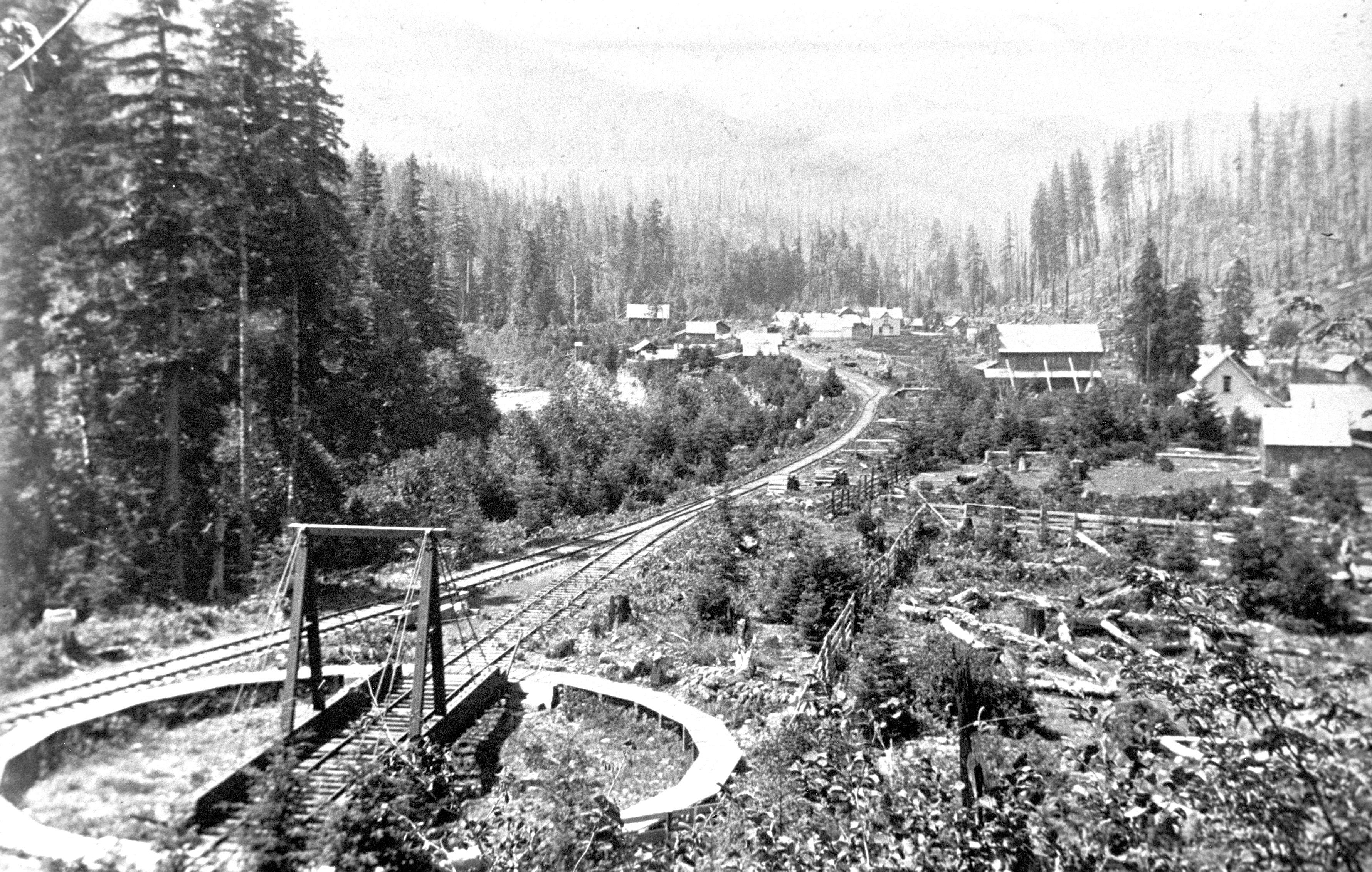 Original Collection: Gerald W. Williams Collection, 1855-2007 Item Number: WilliamsG: SVrailroadturn You can find this image by searching for the item number by clicking here. Want more? You can find more digital resources online. We're happy for you to share this digital image within the spirit of The Commons; however, certain restrictions on high quality reproductions of the original physical version may apply. To read more about what “no known restrictions” means, please visit the Special Collections & Archives website, or contact staff at the OSU Special Collections & Archives Research Center for details.